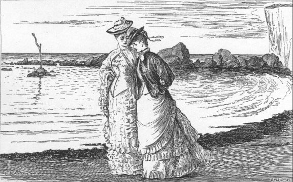 The Hand of Ethelberta by Thomas Hardy